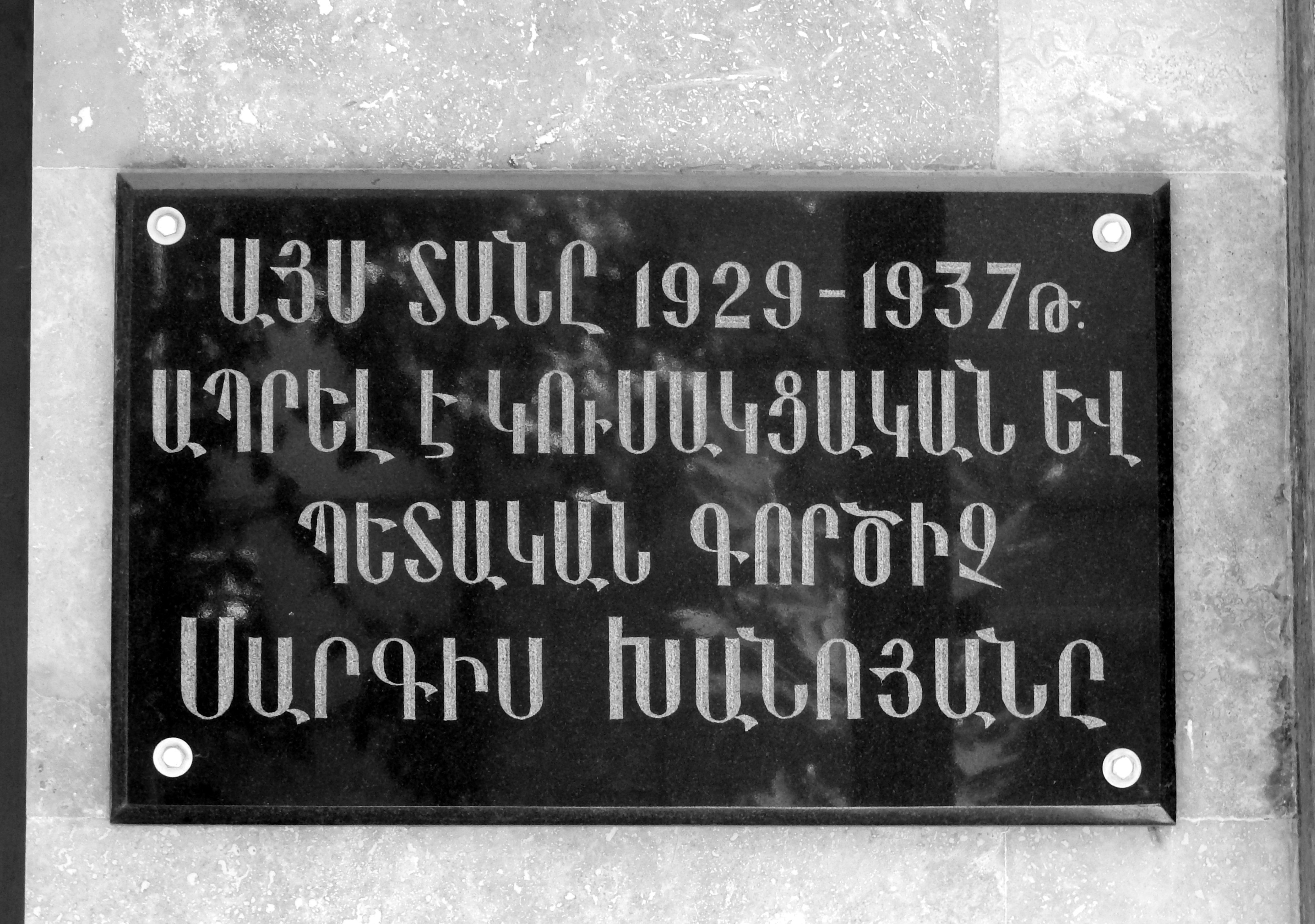 Սարգիս Խանոյանի հուշատախտակը Երևանի Փարպեցու 20 հասցեում